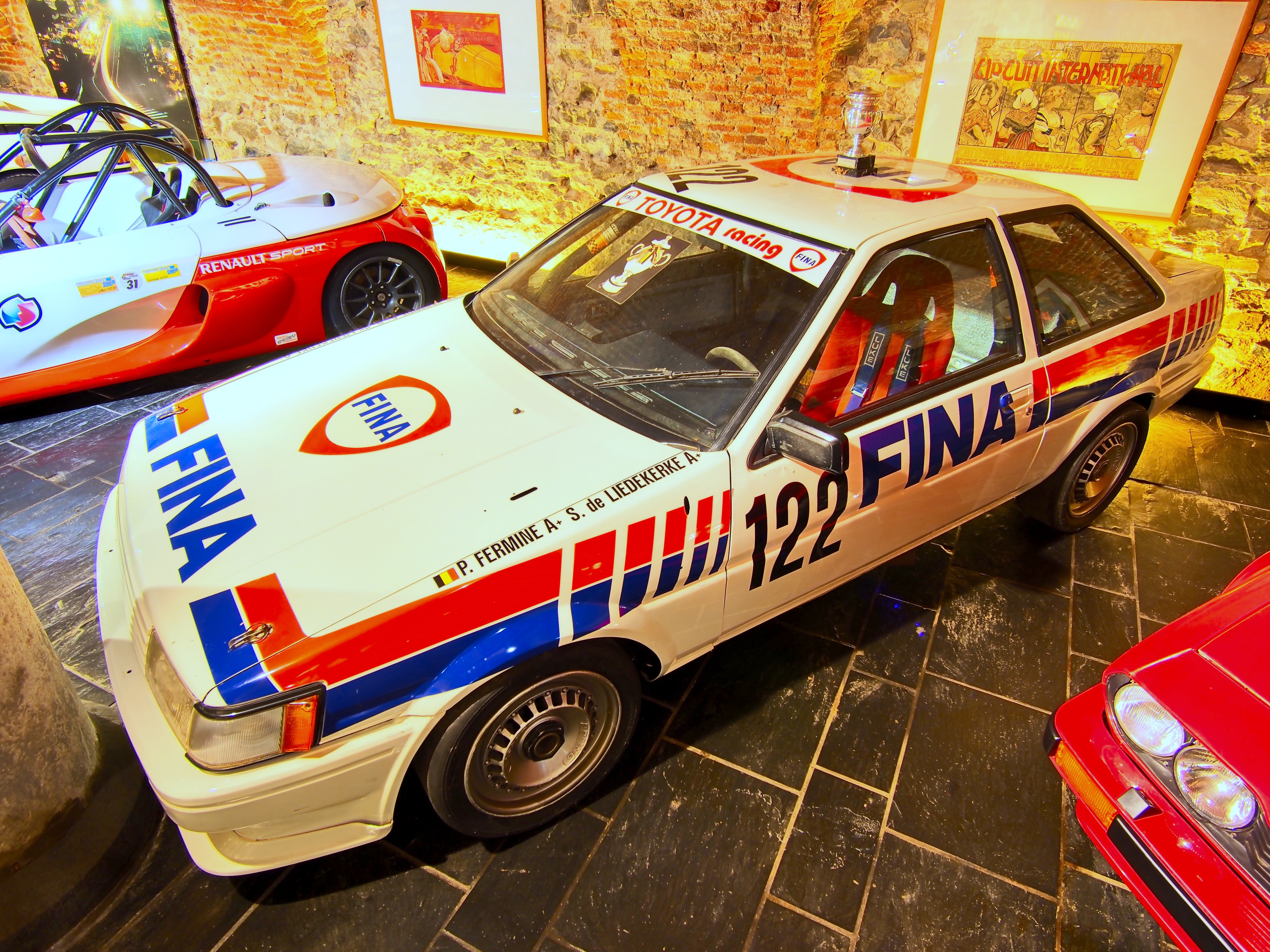 Photographed at the Spa-Francorchamps Racing Museum.